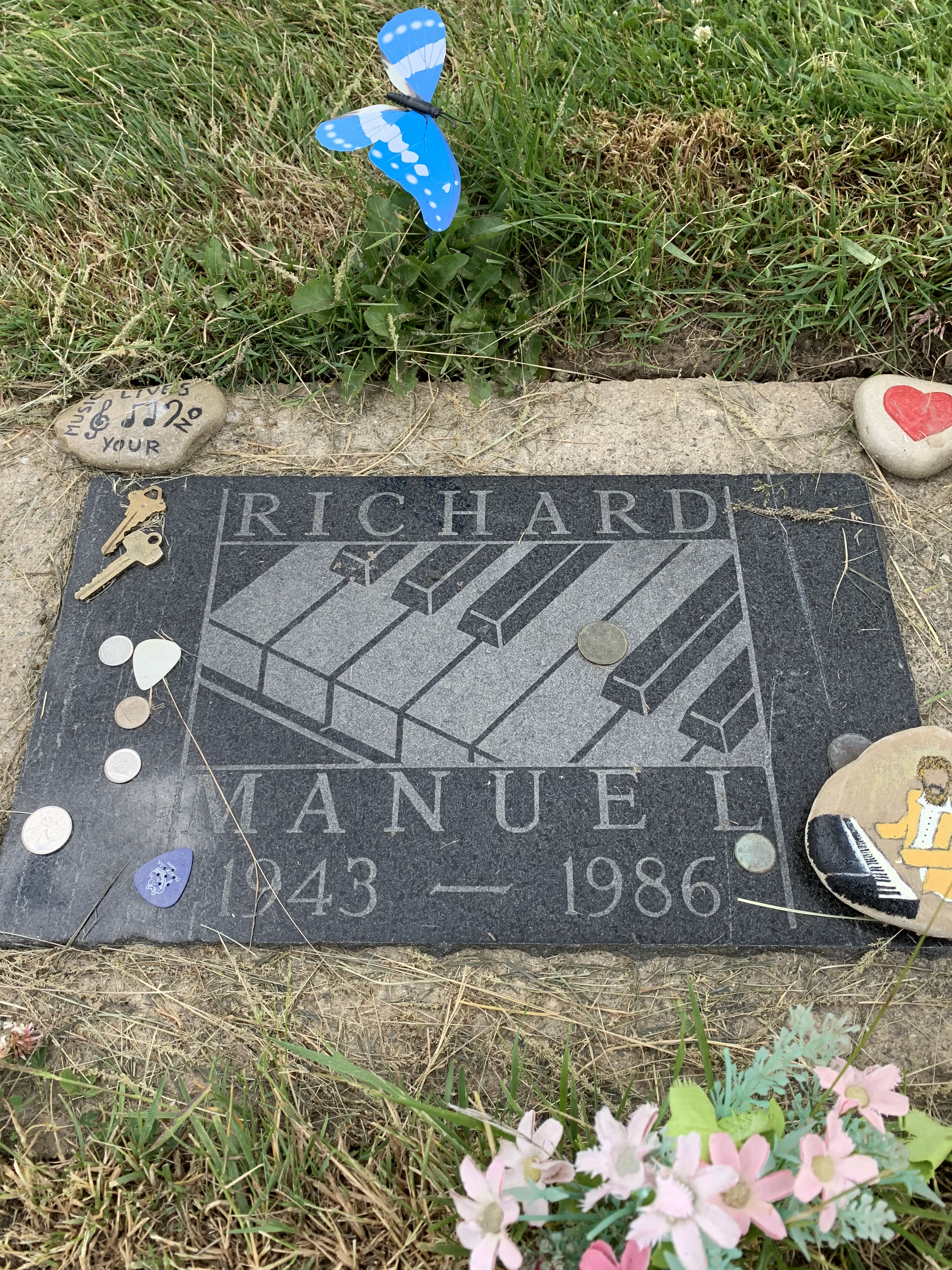 gravestone Avondale Cemetary